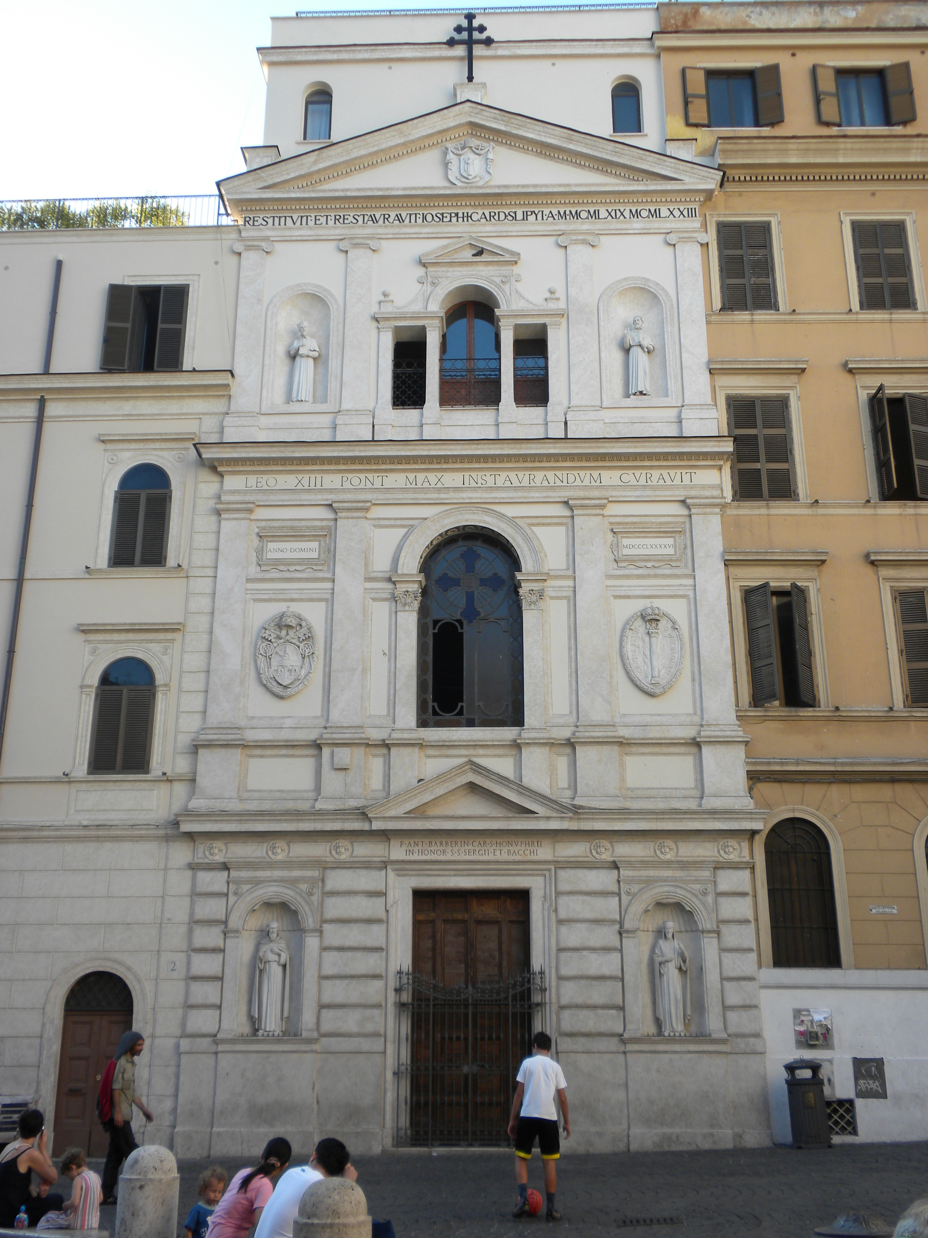 exterior of church of Ss. Serge and Bacchus, Rome